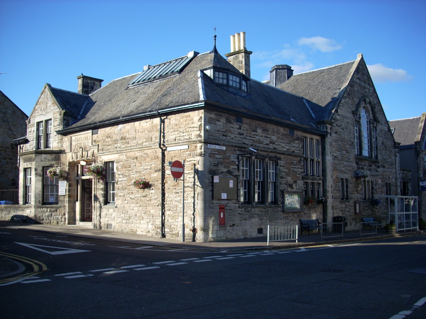 Photo of the Village Hall in West Kilbride, North Ayrshire, Scotland. Photograph by Dreamer84, taken on 20 August 2007.